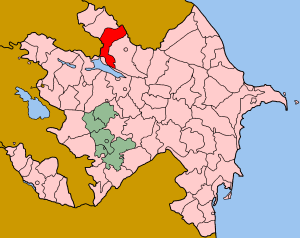 Map of Azerbaijan showing Qakh (Qax) rayon.